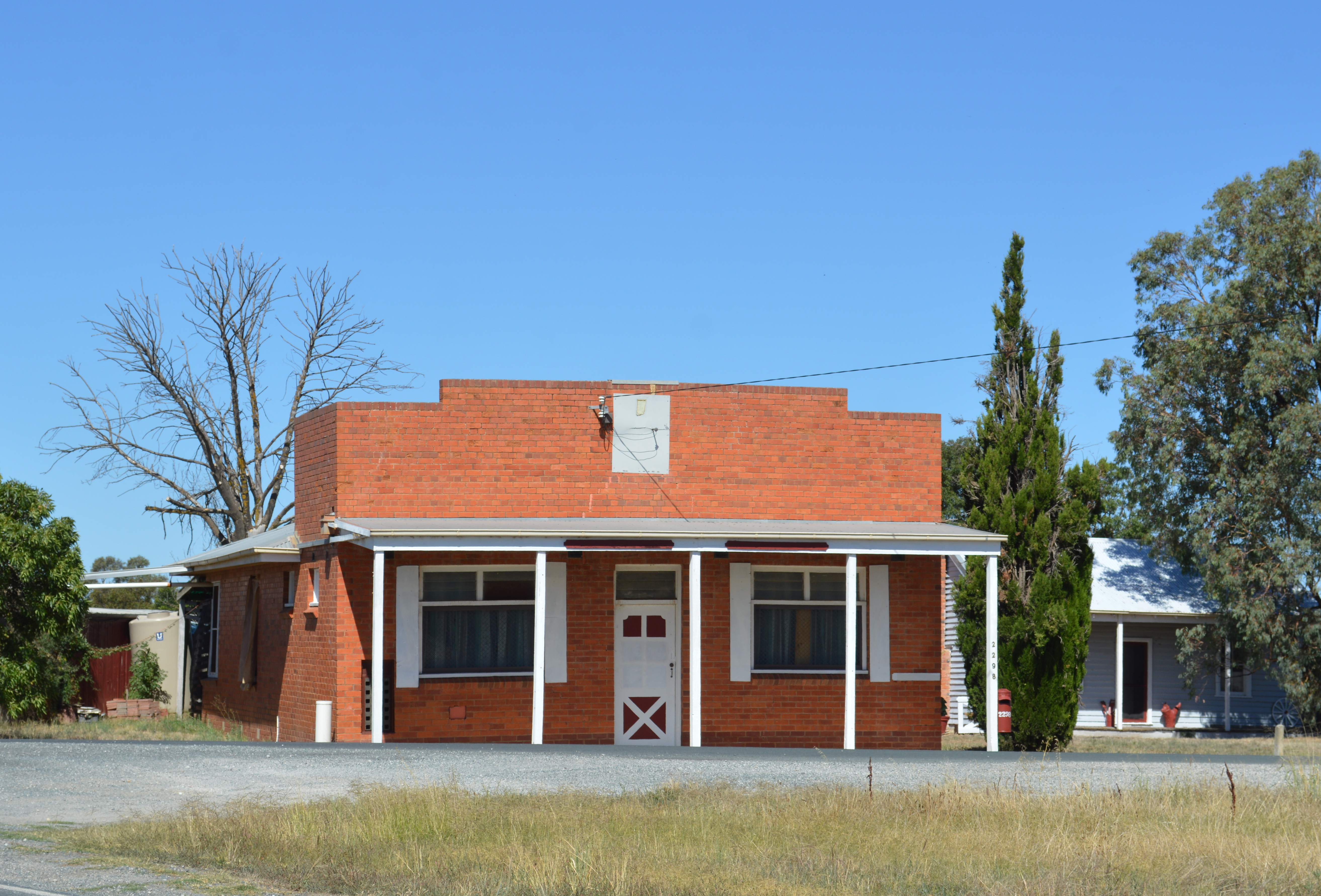 A building (former shop) at Koyuga, Victoria